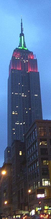 The Empire State Building, New York.